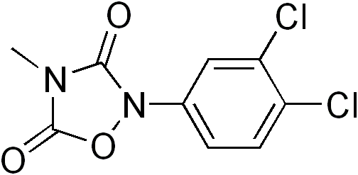 Chemical structure of methazole created with ChemDraw.